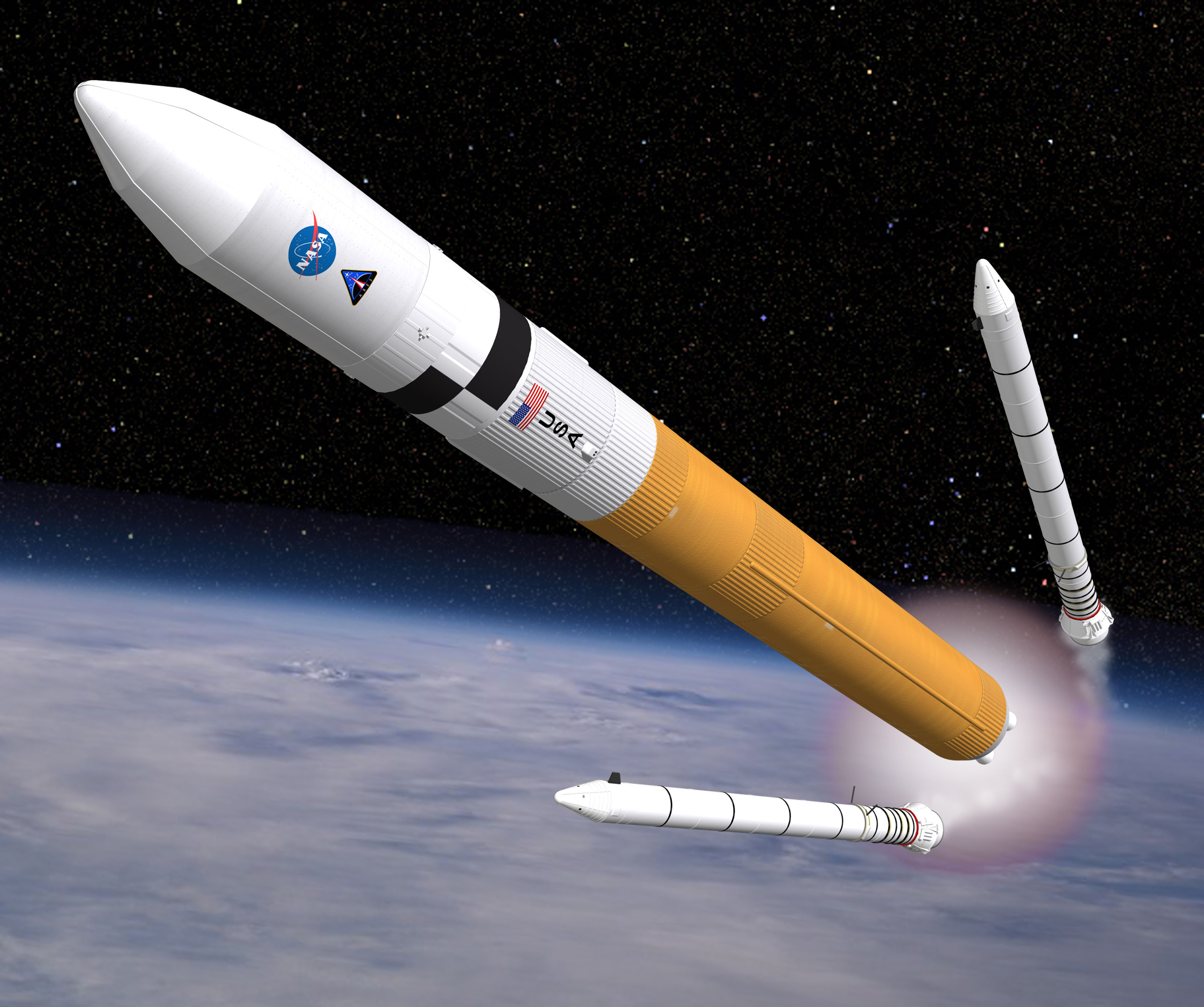 Ares V (February 2008)MSFC-0800206 (8 Feb. 2008) -- A concept image shows the Ares V cargo launch vehicle. The heavy-lifting Ares V is NASA's primary vessel for safe, reliable delivery of large-scale hardware to space. This includes the Altair lunar lander, materials for establishing a permanent moon base, and the vehicles and hardware needed to extend a human presence beyond Earth orbit. Ares V can carry approximately 290,000 pounds to low Earth orbit and 144,000 pounds to lunar orbit.